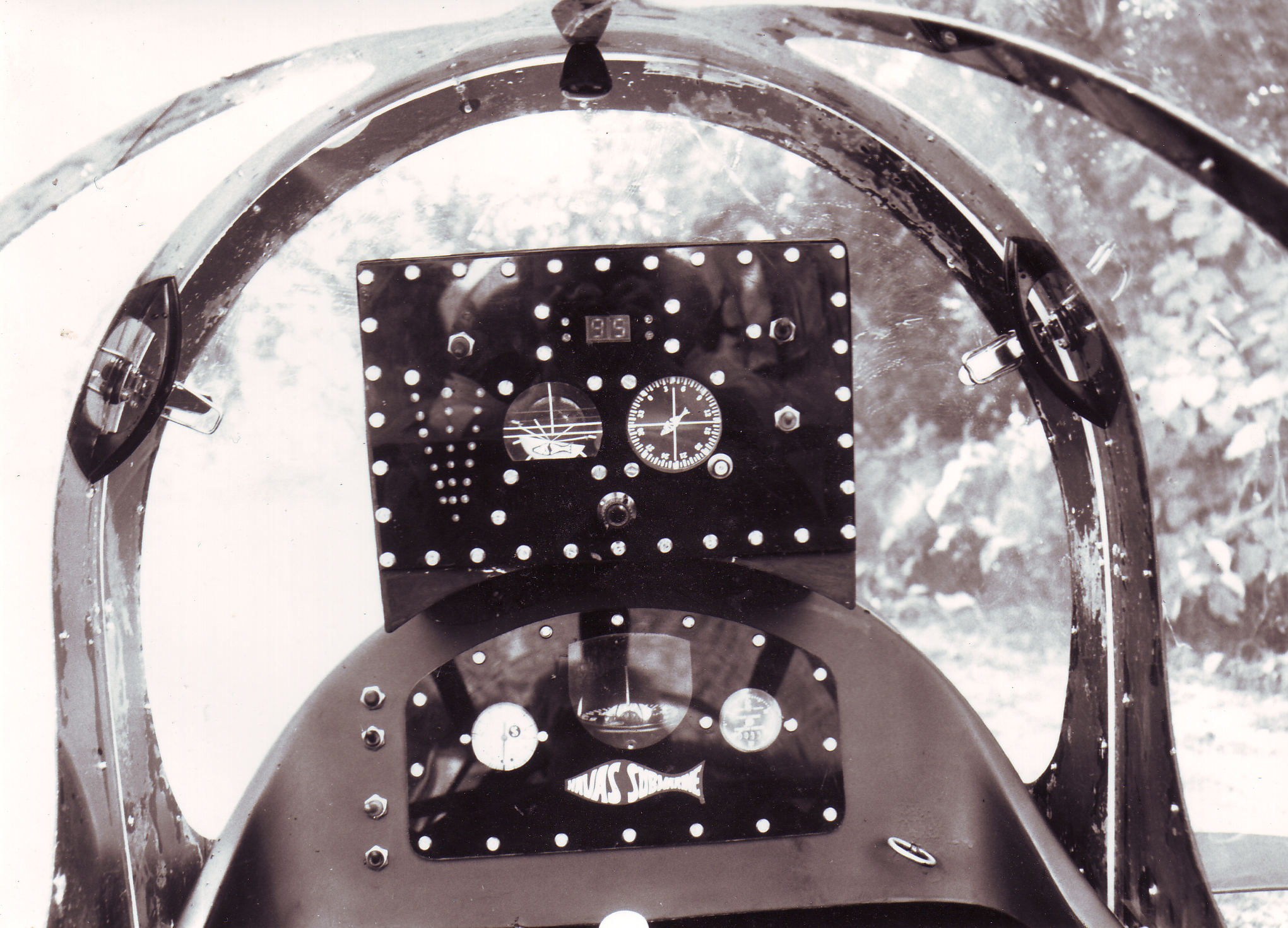 1972 SDV Havas Mark V OPS panel